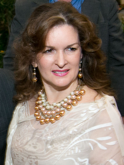 2012 Conference Jacksonville, FL